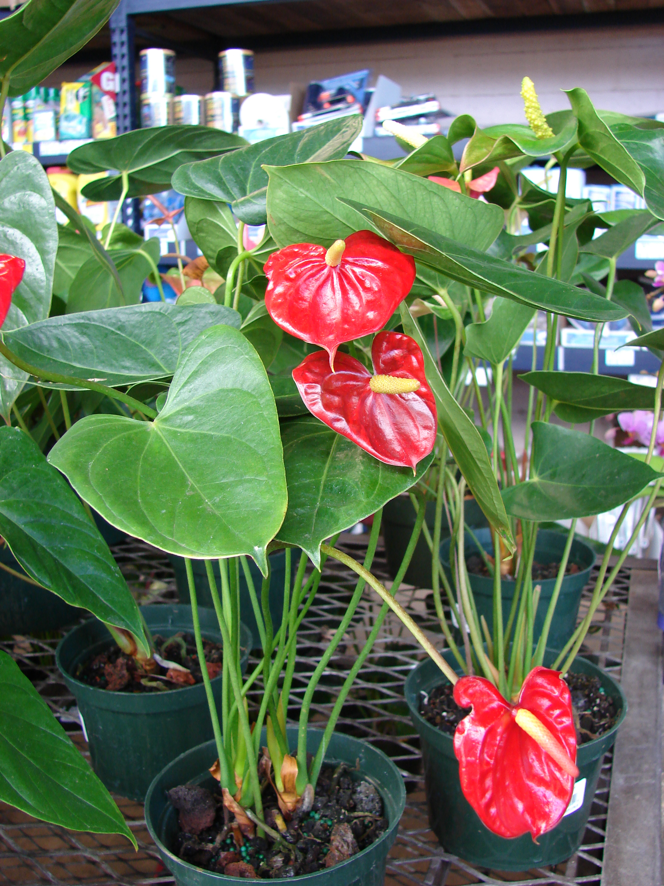 Anthurium andraeanum (flowering habit). Location: Maui, Lowes Garden Center Kahului